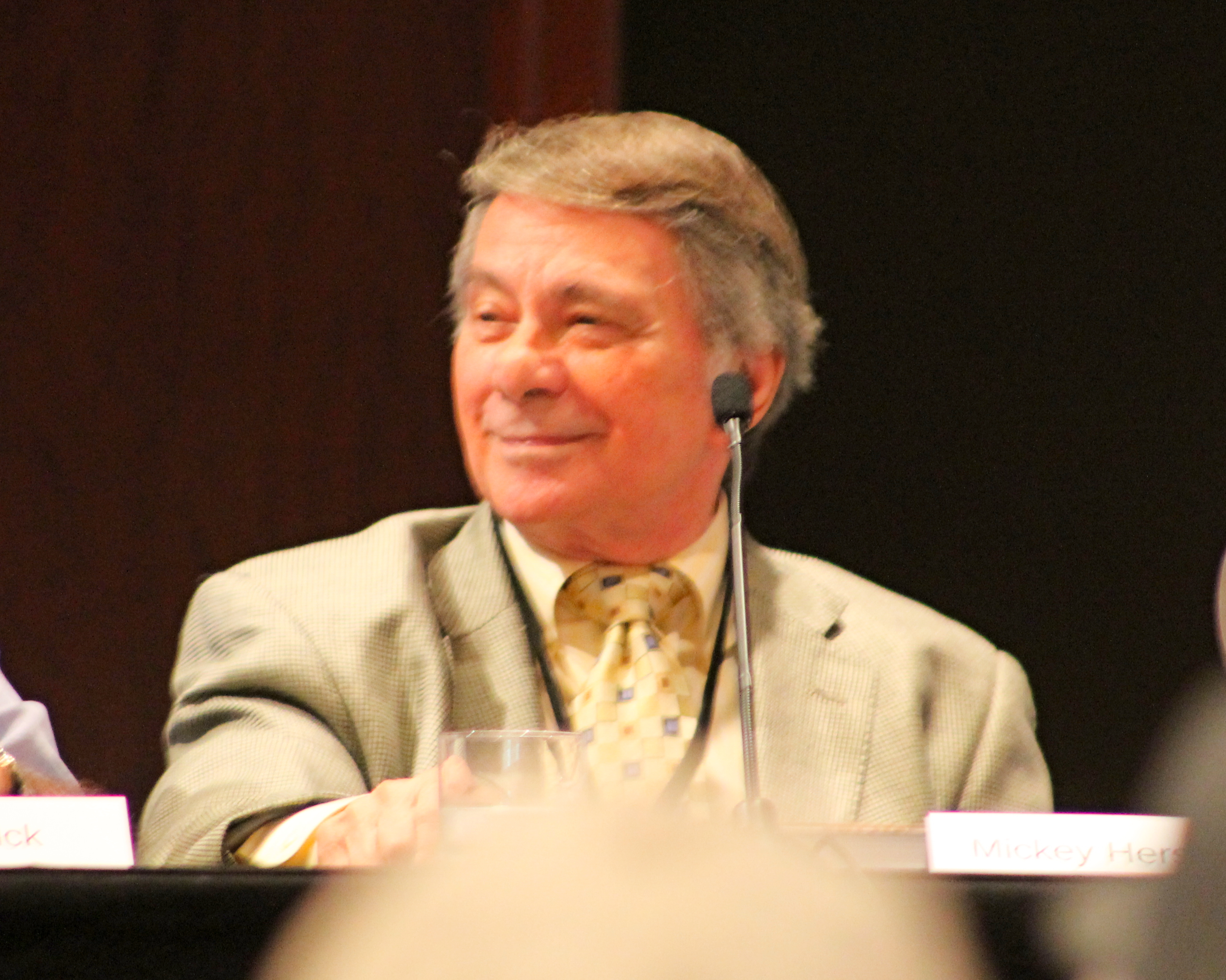 Houston journalist Mickey Herskowitz speaks at the 2014 annual convention of the Society for American Baseball Research.